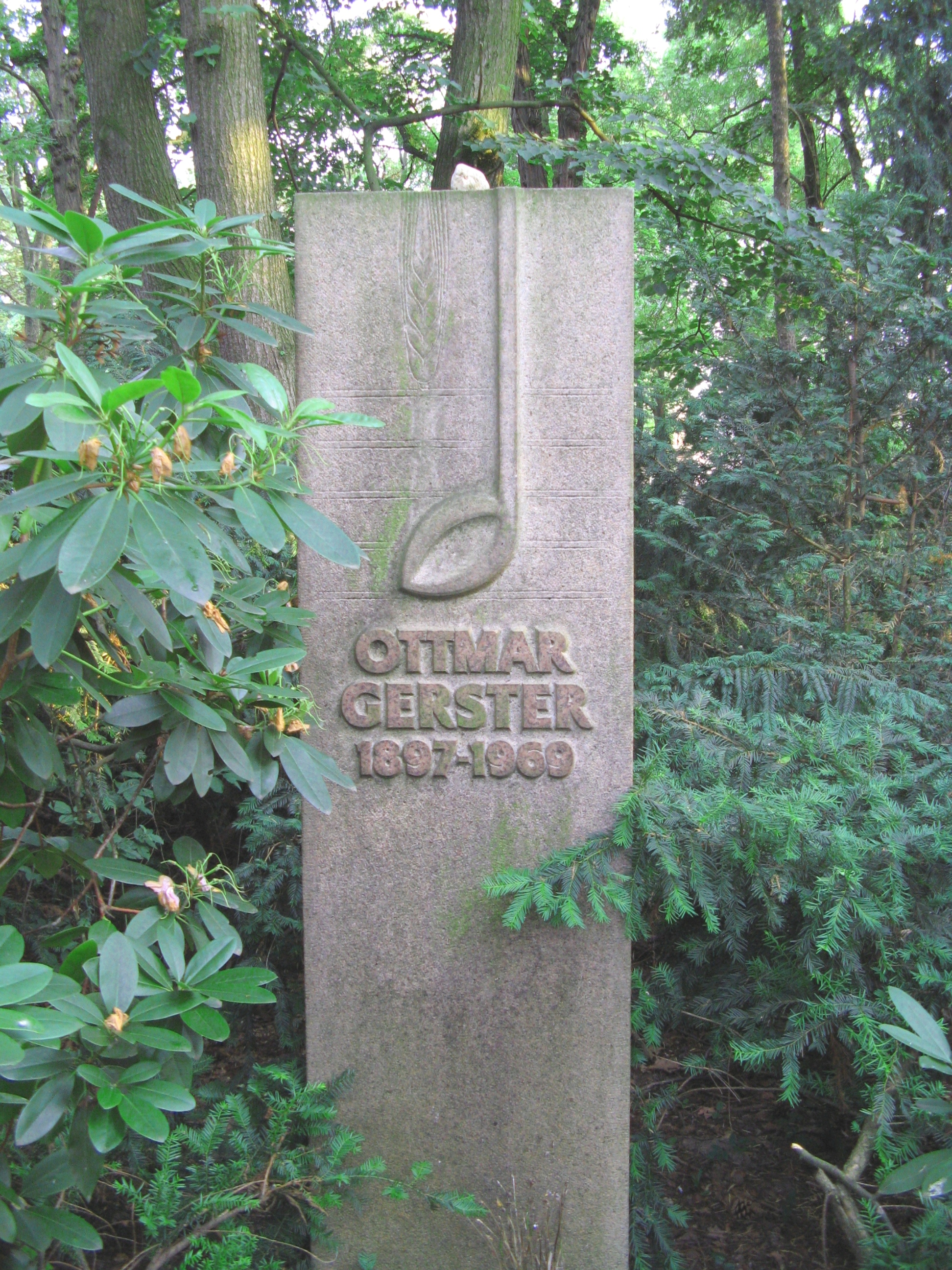 gravesite of Ottmar Gerster at Southern Cemetery Leipzig